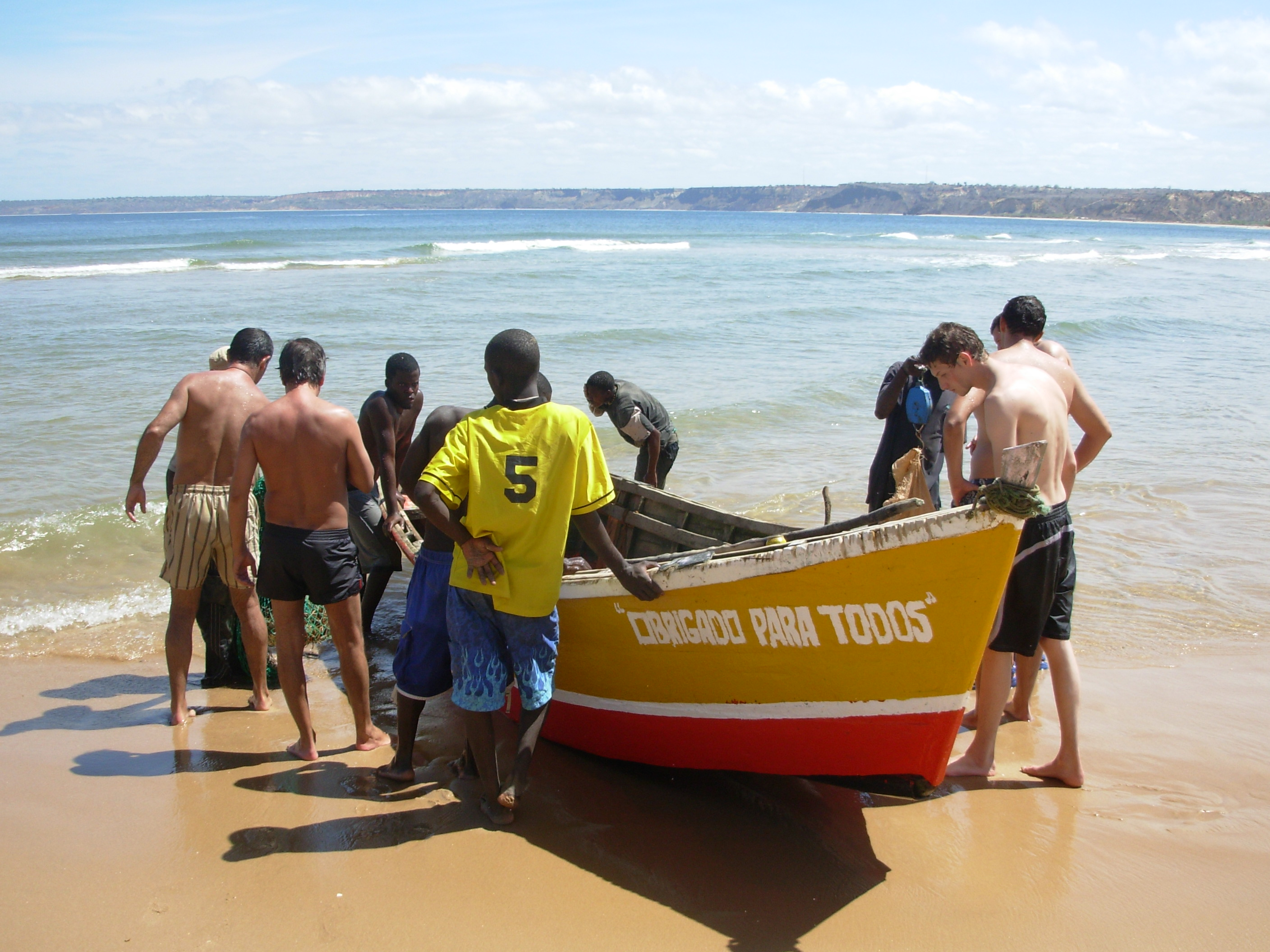 Boat in an angolan beach (Cabo Ledo, Luanda)